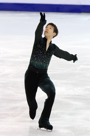 Sebastian Iwasaki at the 2010 World Junior Figure Skating Championships